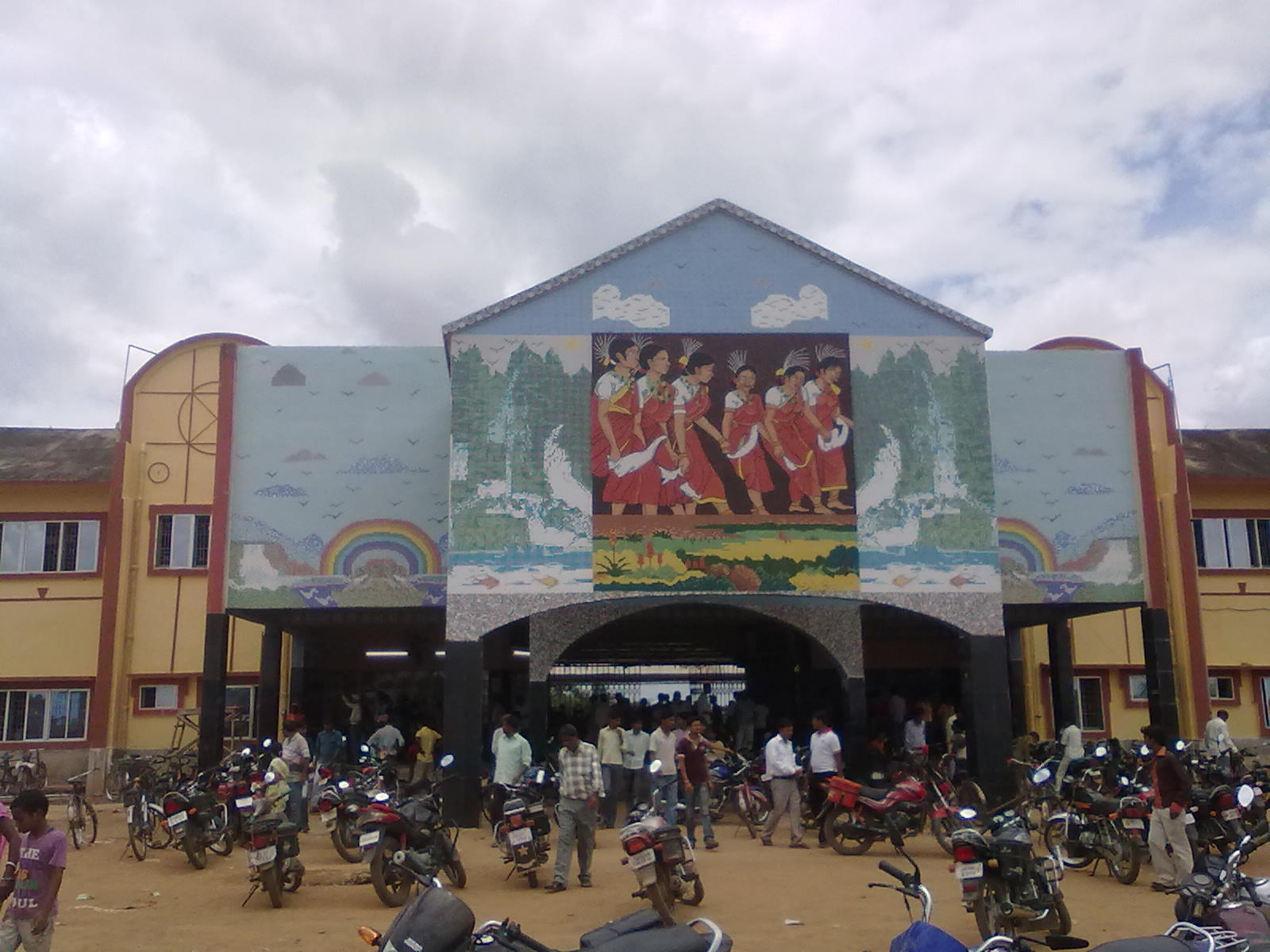 View of front side of Dumka Railway Station